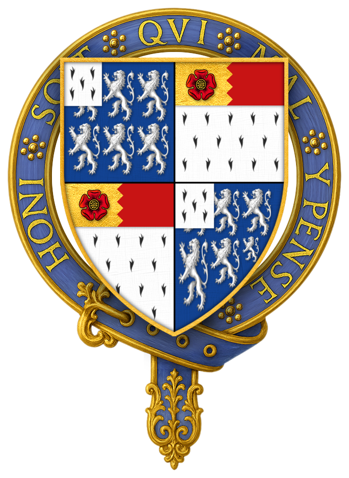 Coat of arms of Sir Thomas Cheney (or Cheyne) KG (c. 1485 – 16 December 1558) of the Blackfriars, City of London and Shurland, Isle of Sheppey, Kent,[1] was an English administrator and diplomat, Lord Warden of the Cinque Ports in South-East England from 1536 until his death. See stall plate of Sir Thomas Cheney, KG in St. George's Chapel. The plate is currently viewable online at the Royal Collection Trust website.